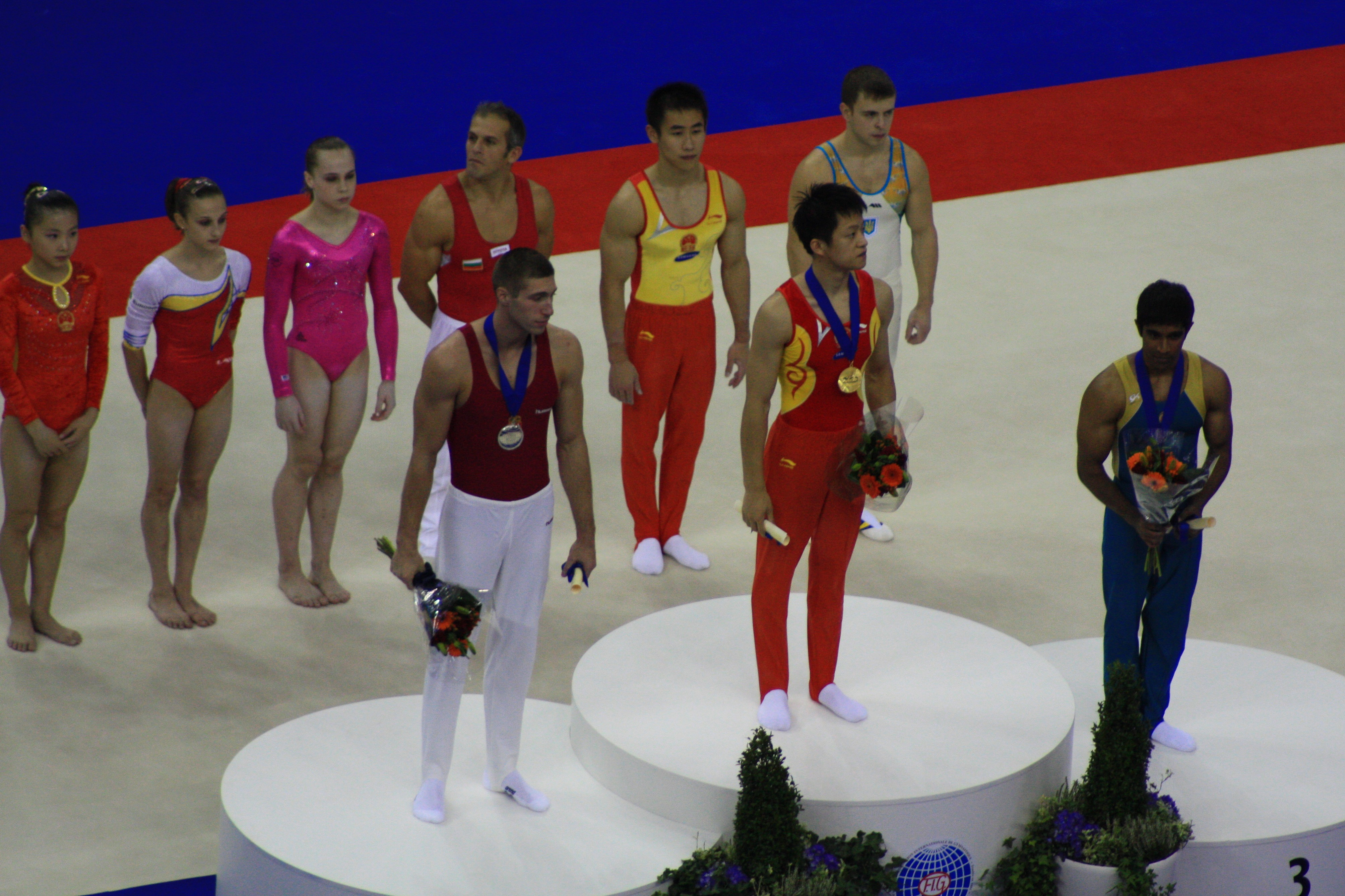 Podium of the pommel horse at the 2009 World Artistic Gymnastics Championships. From left to right on the podium: Krisztián Berki (Hungary, 2nd place), Zhang Hongtao (China, 1st place) and Prashanth Sellathurai (Australia, 3rd place). Behind them, we can see gymnasts waiting for the medal ceremony for the uneven bars and for the rings. From left to right: He Kexin (China, 1st place for uneven bars), Ana Porgras (Romania, 3rd place eq.), Rebecca Bross (USA, 3rd place eq.), Jordan Jovtchev (Bulgaria, 2nd place for rings), Yang Mingyong (China, 1st place) and Oleksandr Vorobiov (Ukraine, 3rd place). NB: Koko Tsurumi (Japan, 2nd place for uneven bars) is absent of this picture.